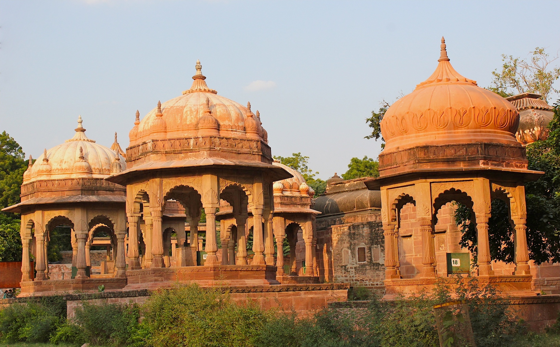 18th century Mandore cenetaphs. Jodphpur, Rajasthan, India. Oct '12.